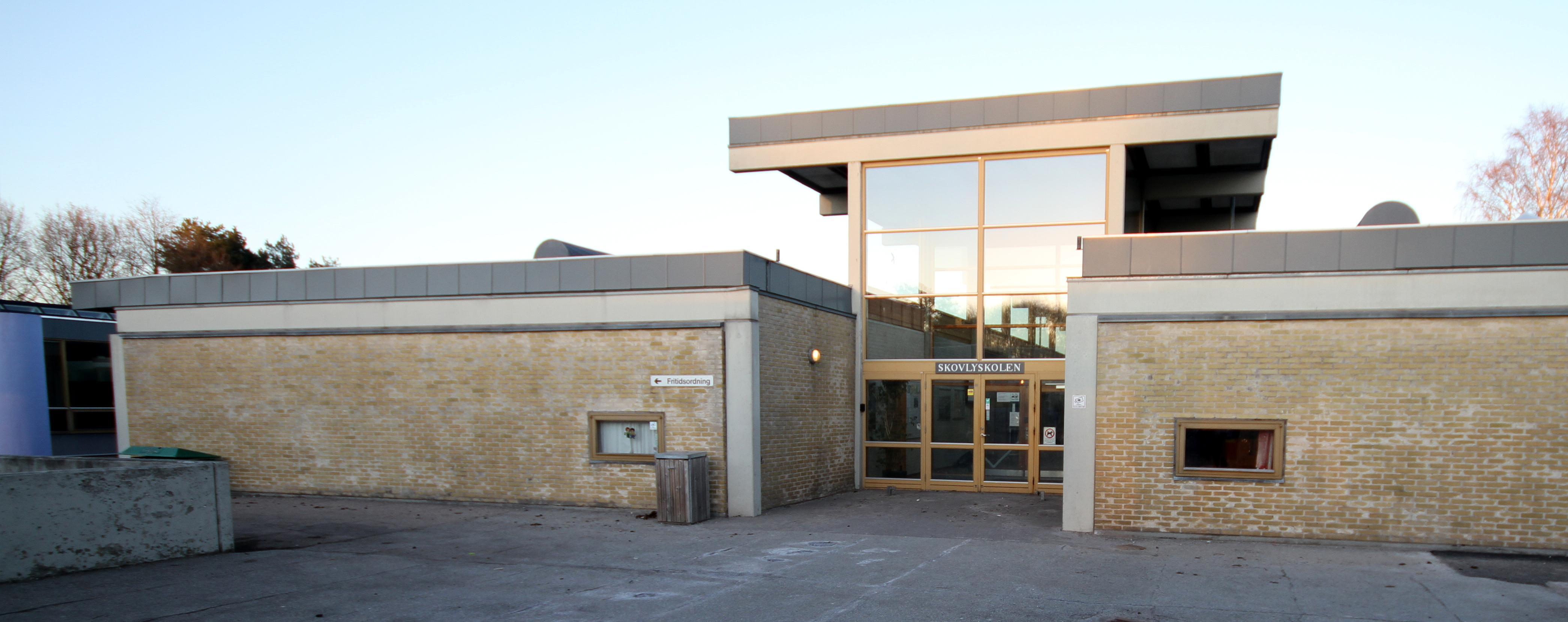 Skovlyskolen, a public school in Rudersdal)